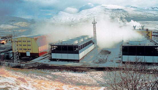 Mutnovskaja GeoTPP is located near to homonyous volcanic mountain to the south from administrative centre of region Petropavlovsk-Kamchatka